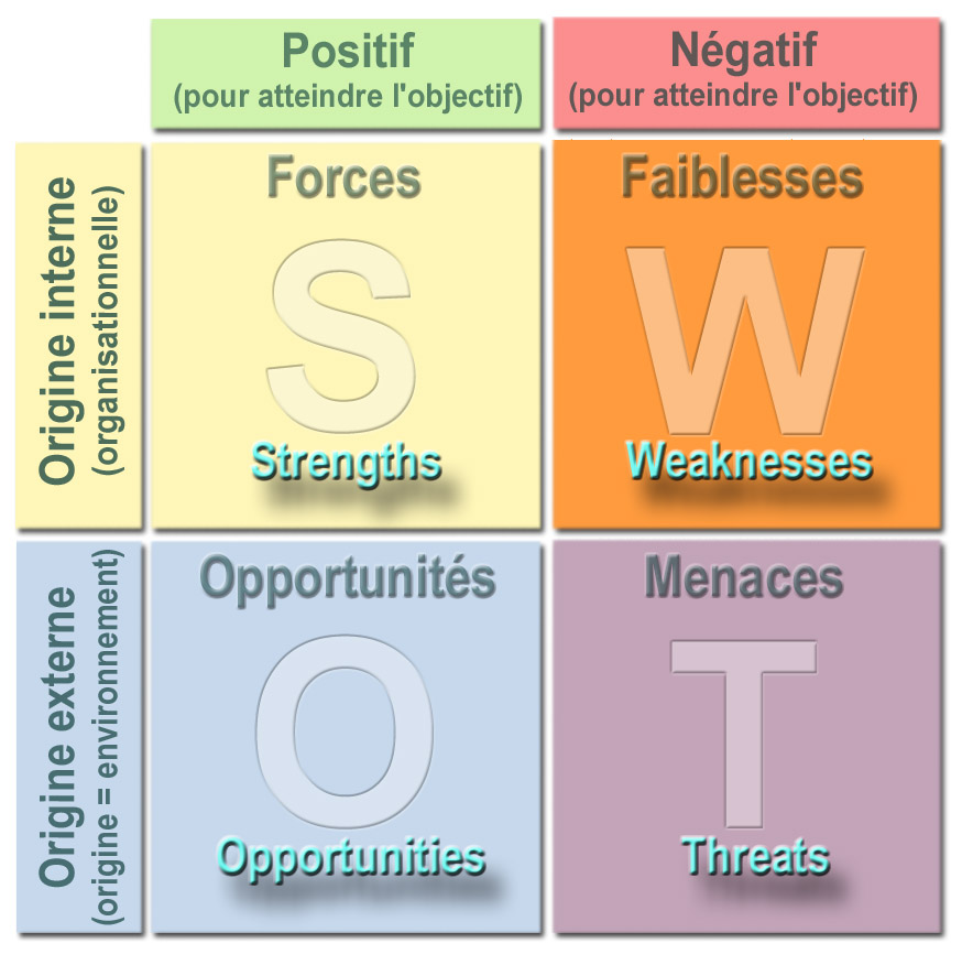 SWOT analysis diagram in English language.